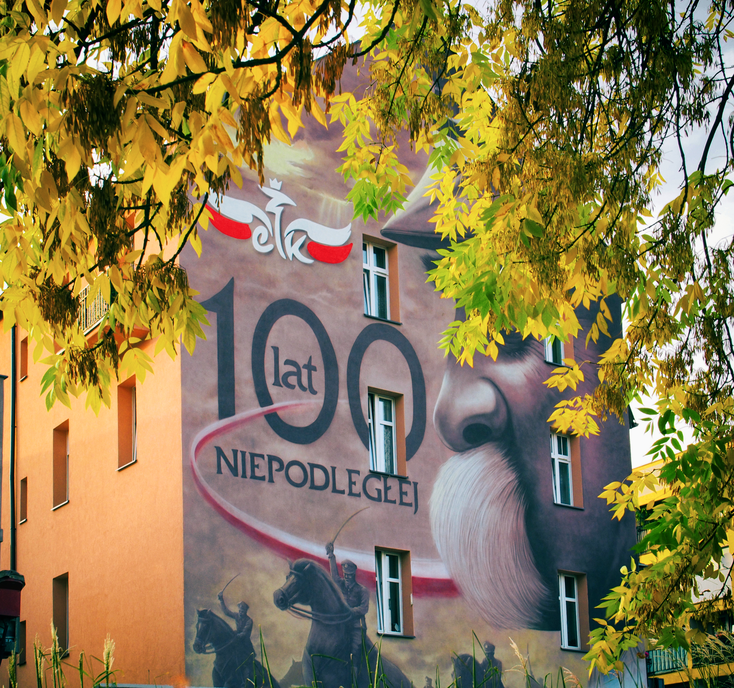 Ełk - Wojsko Polskie St. - September 2018